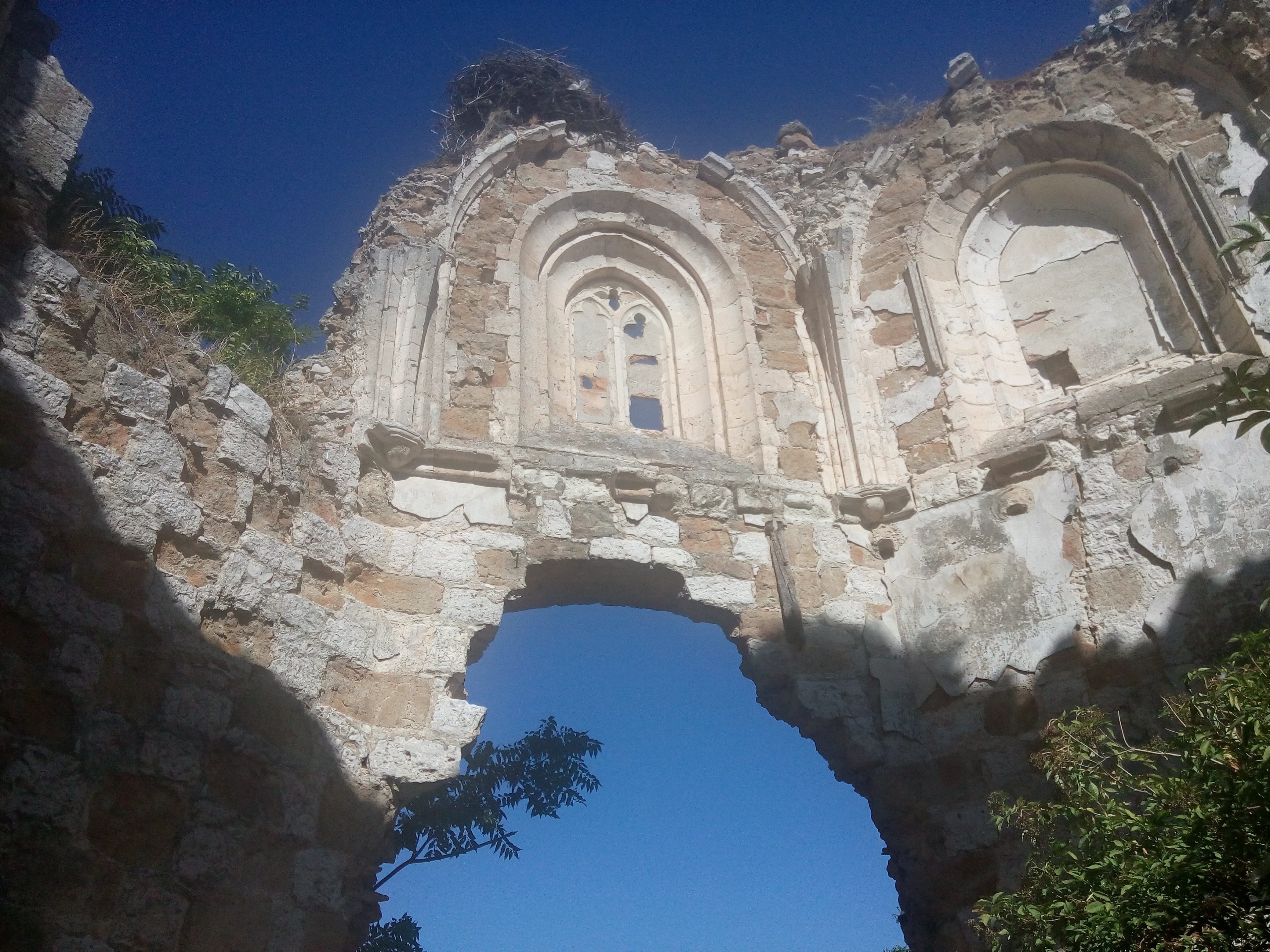 Ruinas del monasterio de Aniago en el término de Villanueva de Duero, Valladolid, España. Restos de la parte superior de la capilla mayor con sus ventanas en equilibrio.